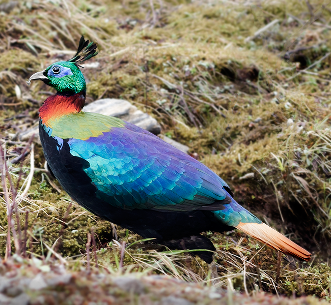 This bird species Himalayan Monal an adult male has been photographed at the district of East Sikkim in the state of Sikkim of India on 11th May 2014.